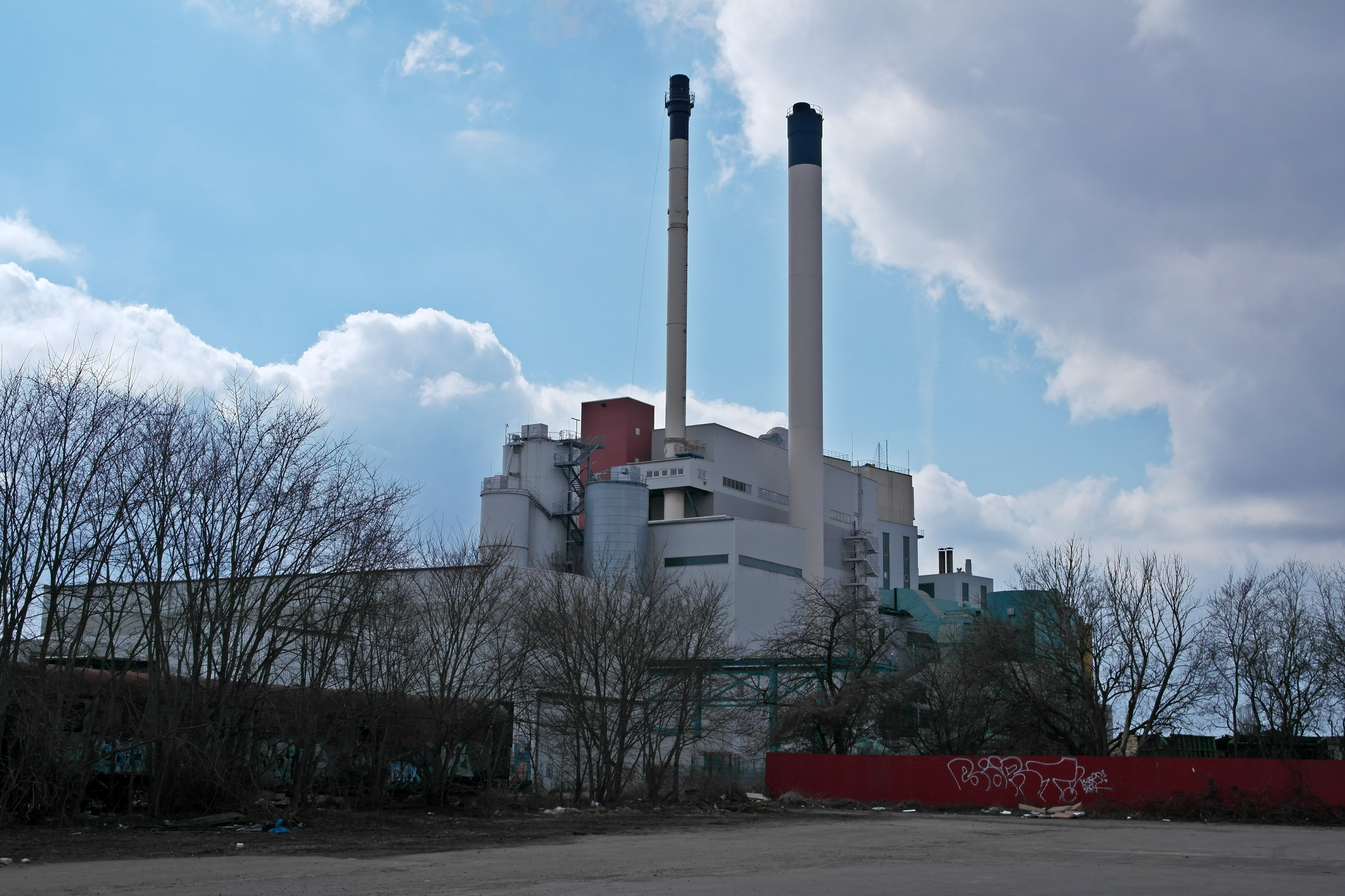 Waste incinerating plant (waste-to-energy facility) of Stadtwerke Neumünster in the Bismarckstraße from the railroad tracks behind Gutenbergstraße